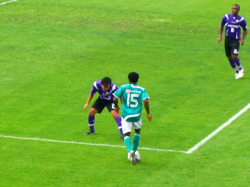 Tai Po's Annan trying to dribble past Fung Ka Ki of Mutual FC